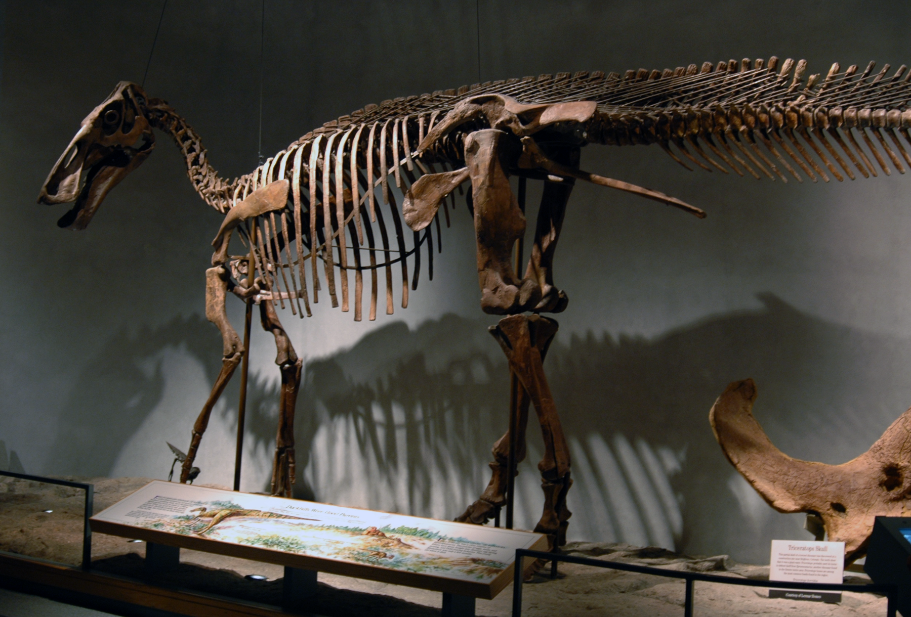 Fossil skeleton of Edmontosaurus with evidence of a Tyrannosaurus bite on the tail. Photograph taken at the Denver Museum of Nature and Science in 2007.